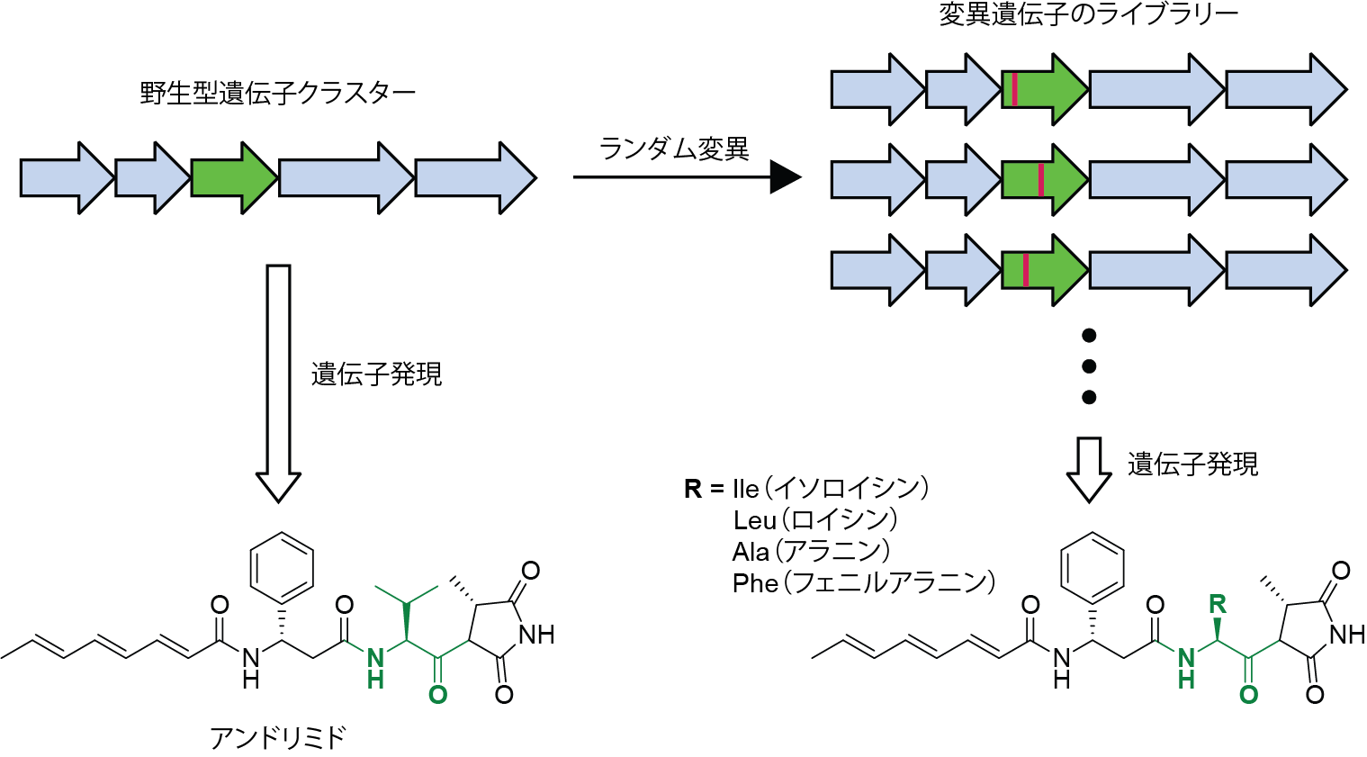 Example 7 of combinatorial biosynthesis (Japanese).